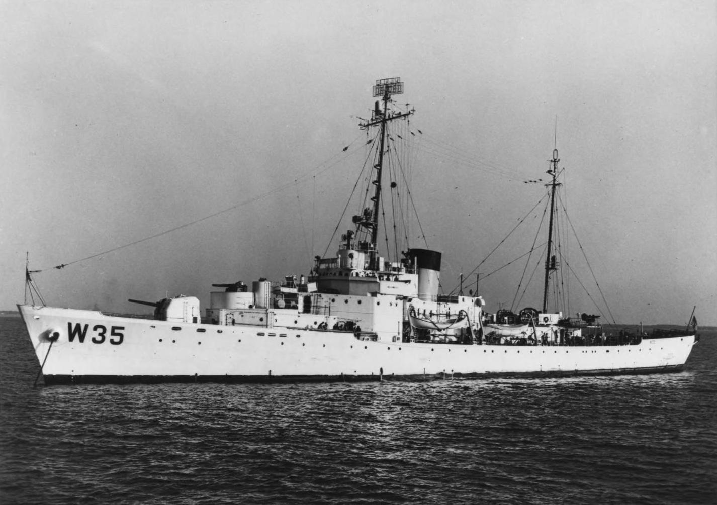 U.S.C.G.C. INGHAM in 1953. Cropped in 2008 to remove border and text label. The label reads, in its entirety: "U.S.C.G.C. _Ingham_ / Mount Pleasant, South Carolina / _Ingham_ in 1953 / Photo #2 by U.S. Navy / Courtesy of U.S. Naval Institute".